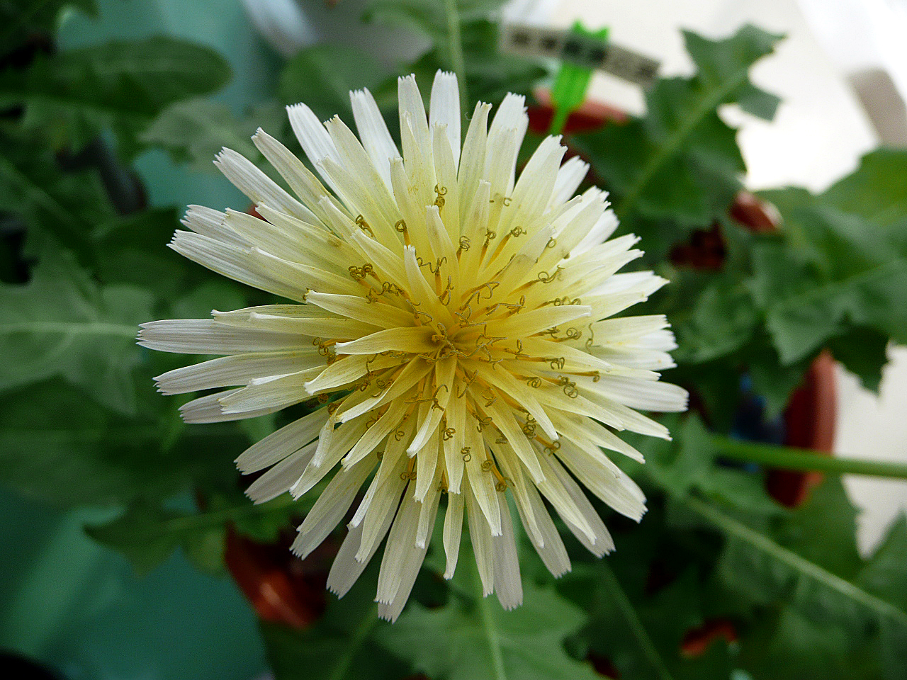 cream-flowering Japanese dandelion(Taraxacum denudatum H. Koidz.) Japanese name is "oku-usugi tanpopo".("Tanpopo" means dandelion)